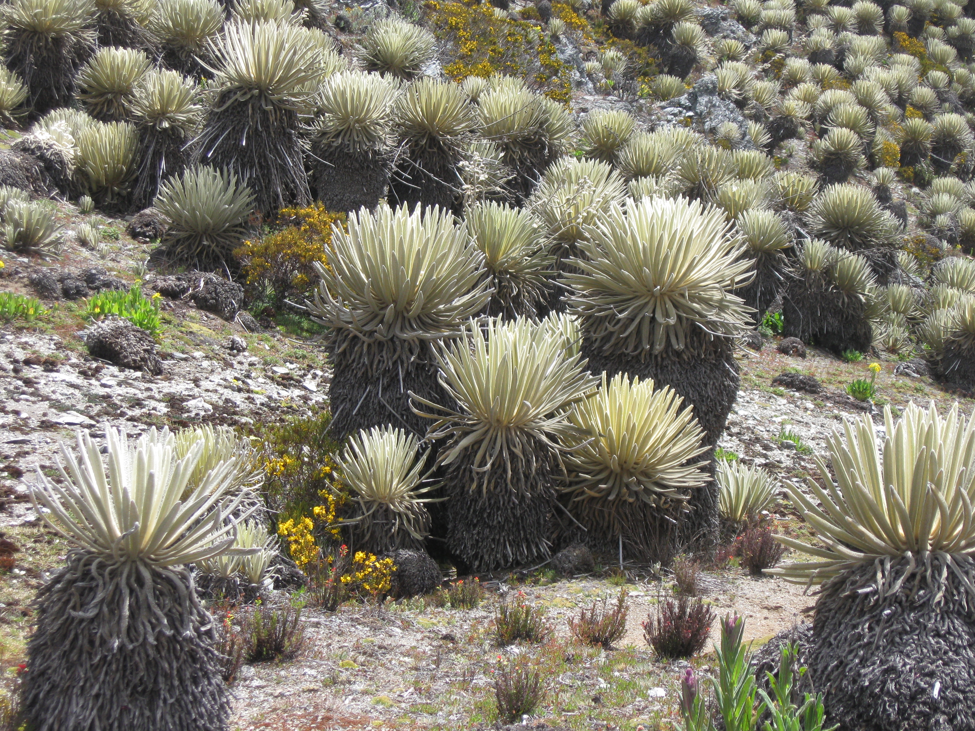 Fralejón, planta típica del páramo, vía a Piñango, Edo. Mérida.